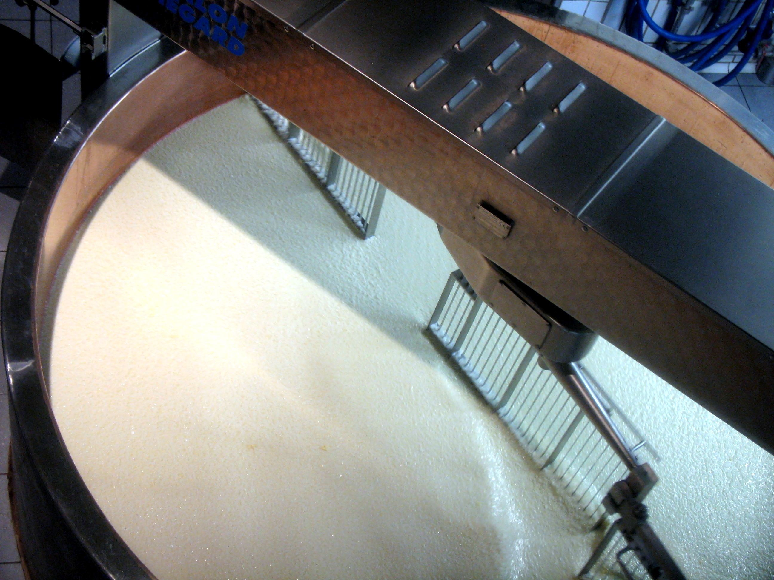 Production of Gruyère cheese at the cheesemaking factorie of Gruyères , Switzerland, Canton of Fribourg. This image was improved or created by the Wikigraphists of the Graphic Lab (fr). You can propose images to clean up, improve, create or translate as well.